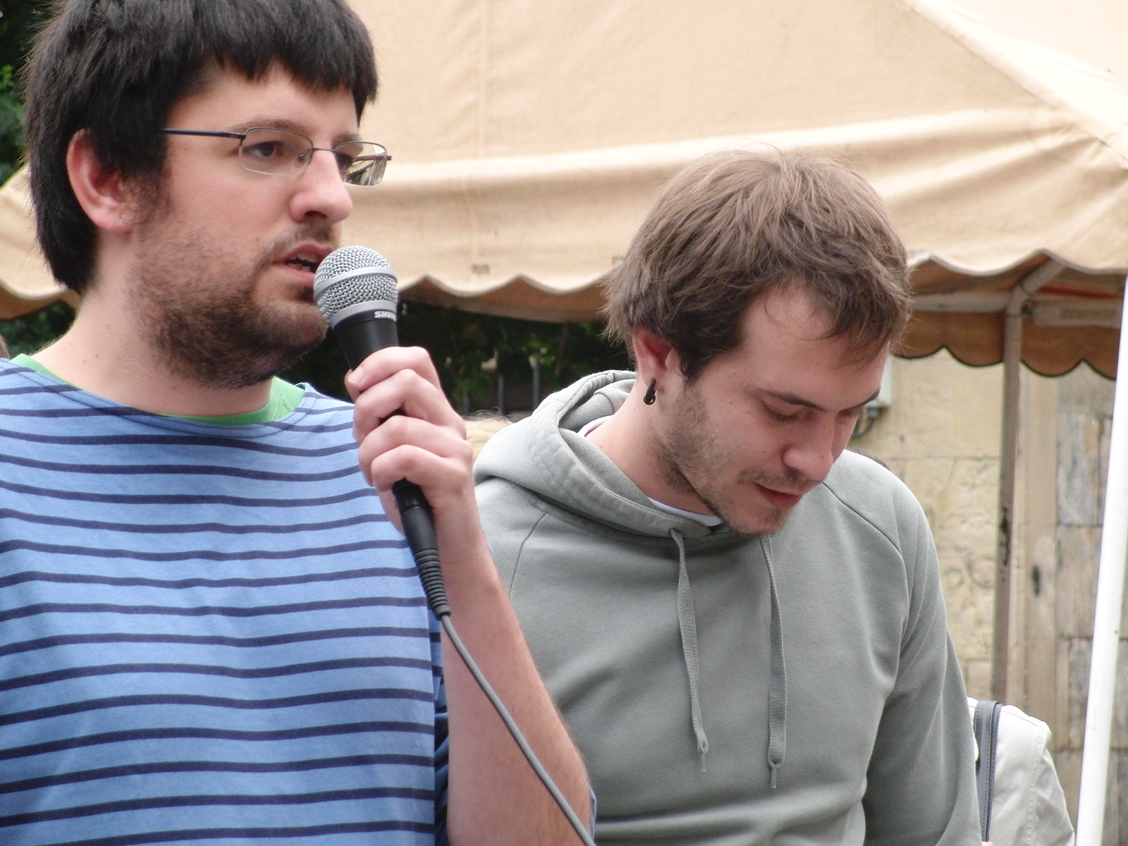 Manex Agirre bertsolaria 2010ean.